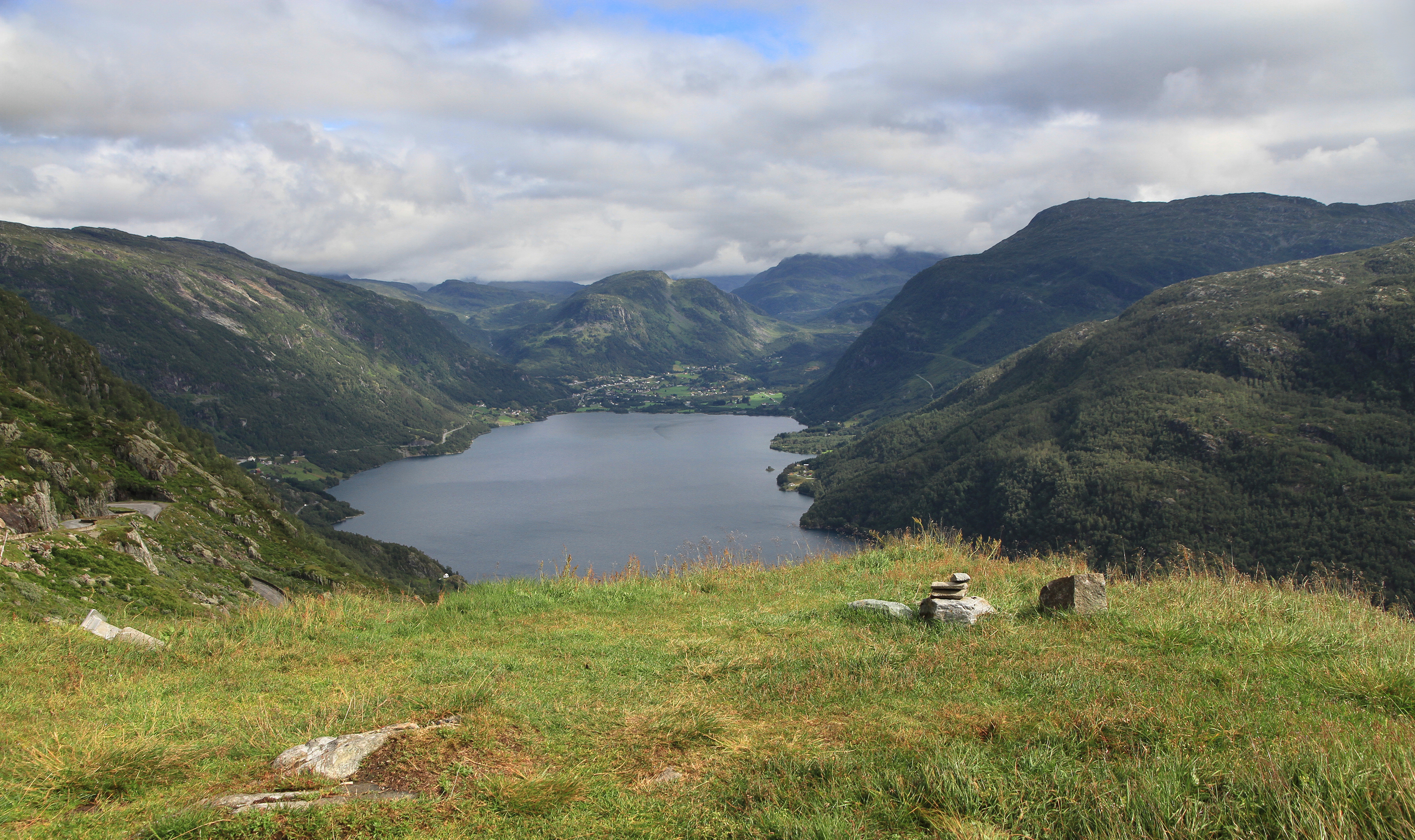 Røldalsvatnet as seen from a mountain hillside at Fylkesvei 520 road in 2011 August. Røldal village is visible at the end of the lake.